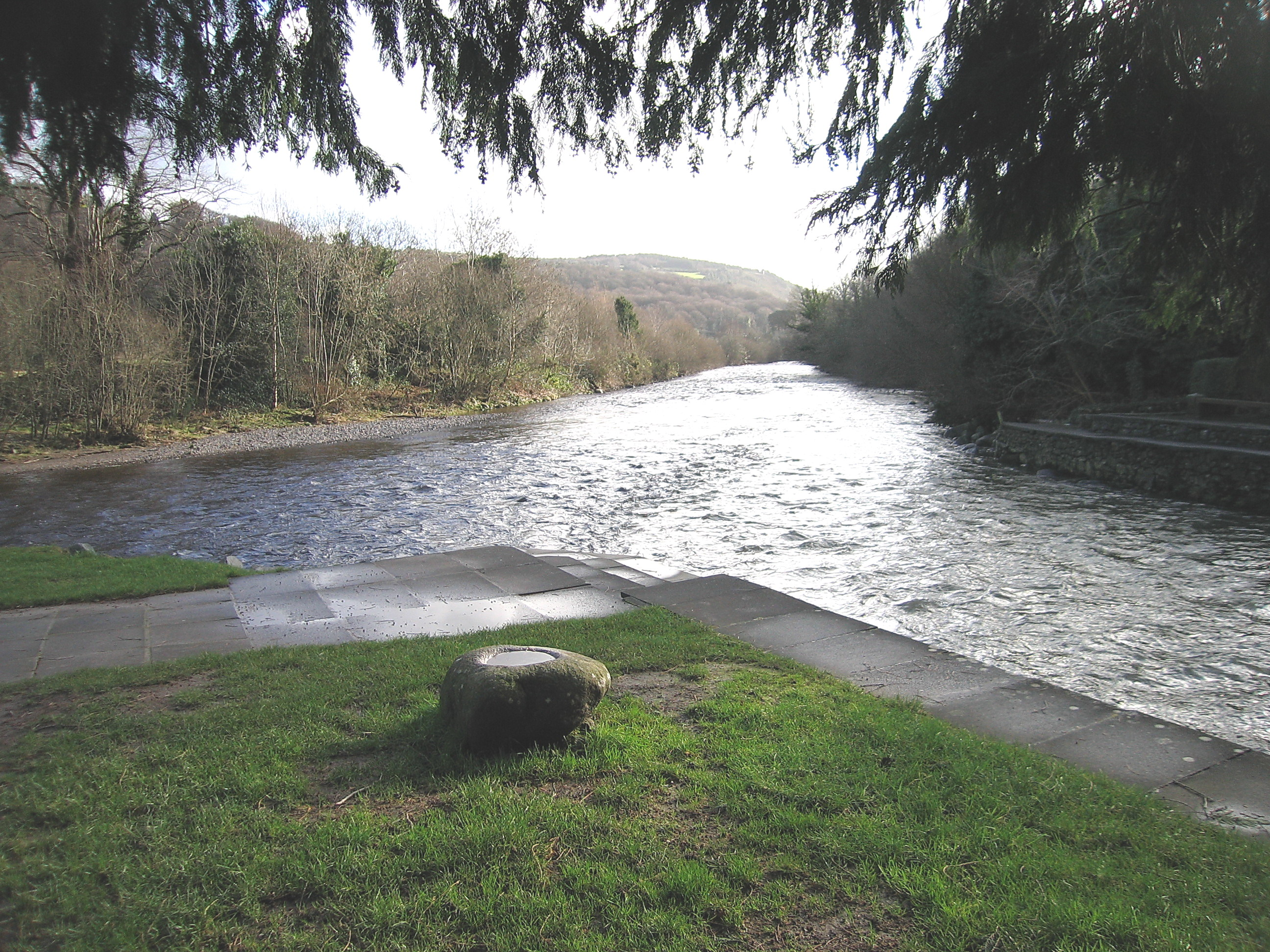 The Meeting of the Waters; Avonmore River left; Avonbeg on right; River Avoca ahead.